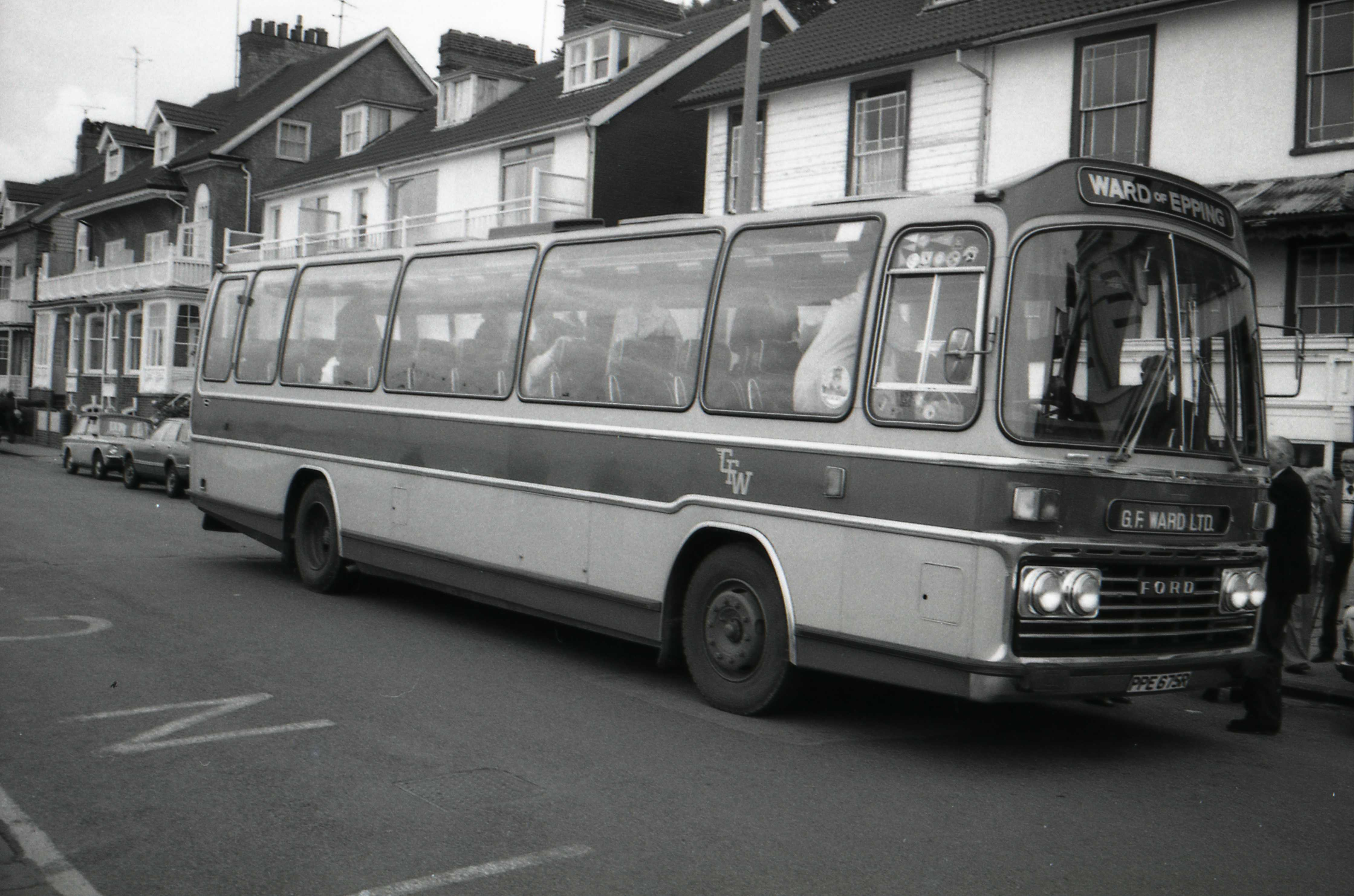 I have no idea where this photo was taken. Felixstowe? Walton? Southwold? This negative has been undeveloped for 30 years. The Surrey dealer registration is unusual.